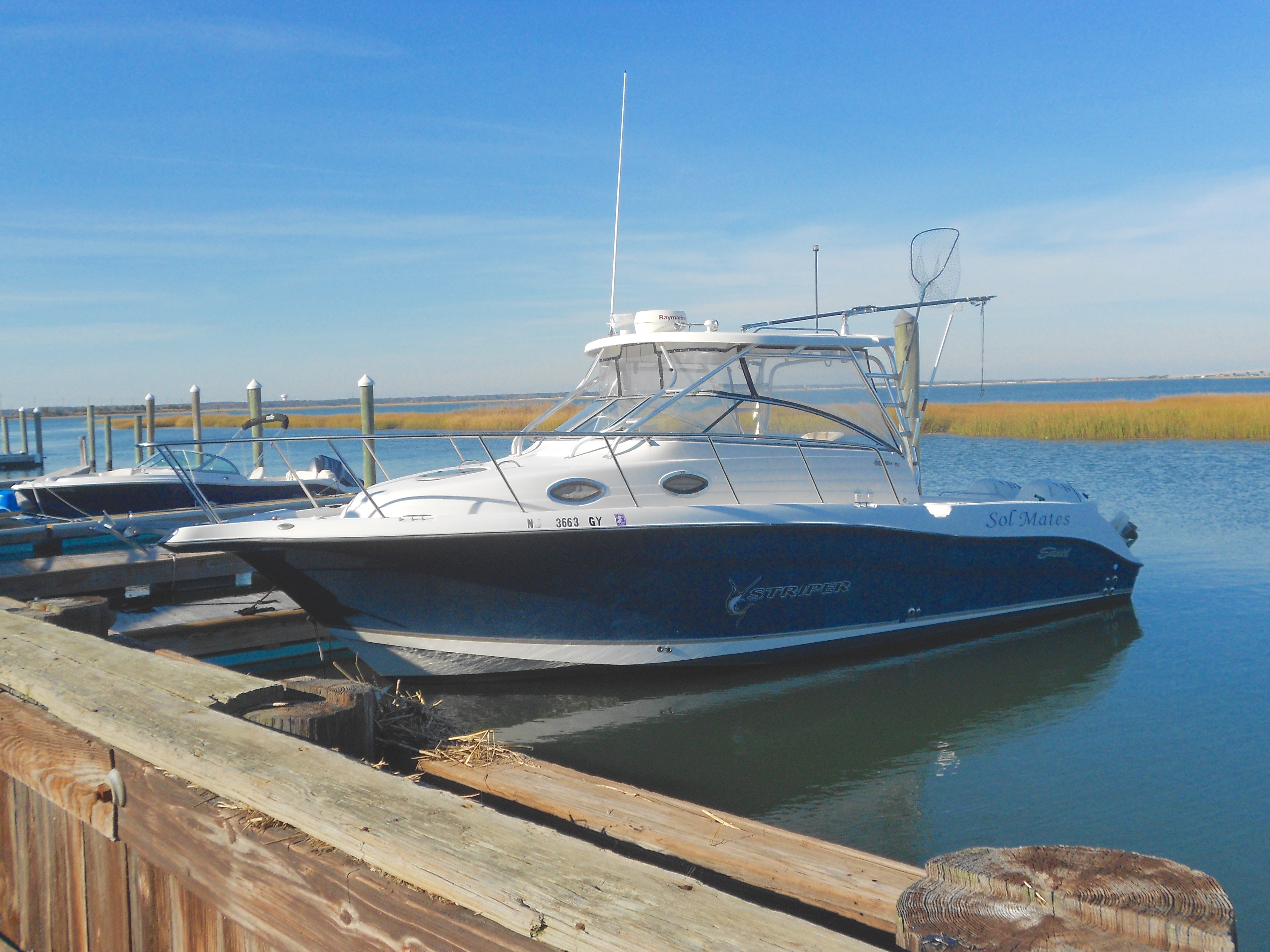 Boat in the borough of West Wildwood, New Jersey. West Wildwood is the smallest of the 4 Wildwoods in NJ and is surrounded by water